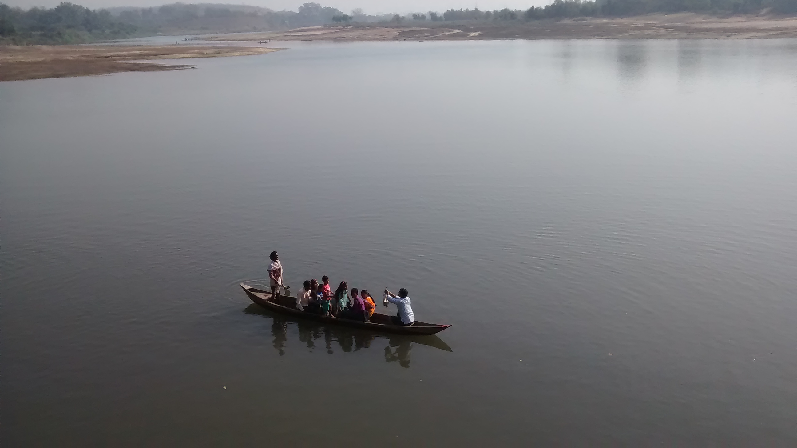 great view of Ib river associate river of Mahanadi